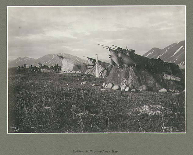 Info from archive: Eskimo summer house, or topek, constructed of reindeer skins stretched over poles, Plover Bay, Siberia, July 1899. From album entitled: A Souvenir of the Harriman Alaska Expedition, May - August, 1899. Volume II, Cook Inlet to Bering Strait and the Return Voyage, leaf 161.Shows inflated seal skins hanging from dwellings. Caption on image: Eskimo Village--Plover Bay Photograph taken by Edward S. Curtis, official photographer, member of the 1899 Harriman Alaska Expedition.